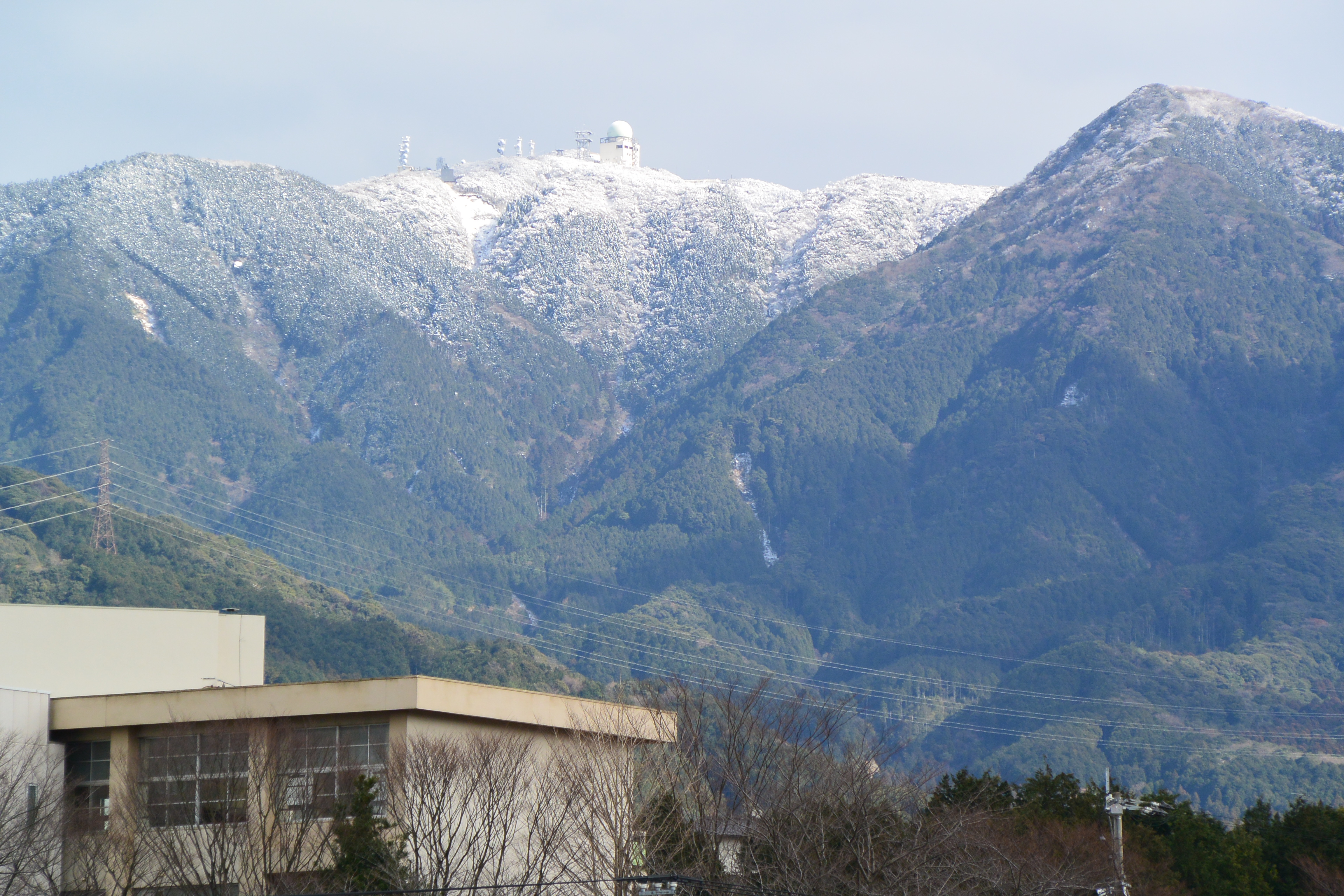 Winter season view of Sangun-san, Fukuoka, Kyusyu